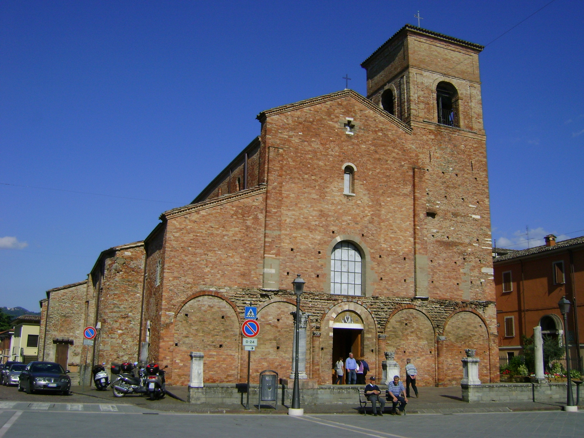 The Basilica of St. Vicinio in Sarsina, in the province of Forlì-Cesena, Emilia-Romagna